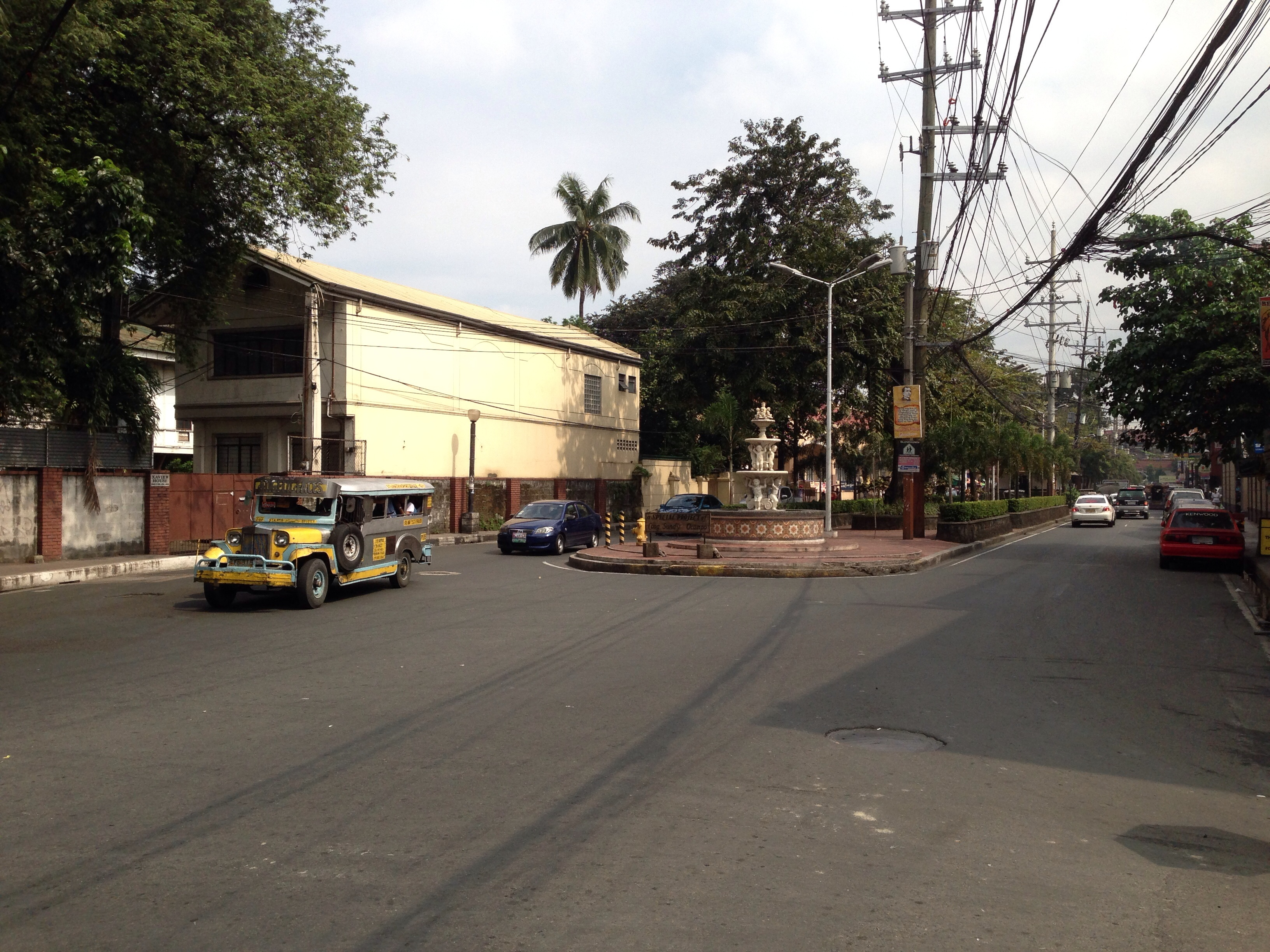 Pedro Gil Street (formerly Calle Herran), Santa Ana, Manila